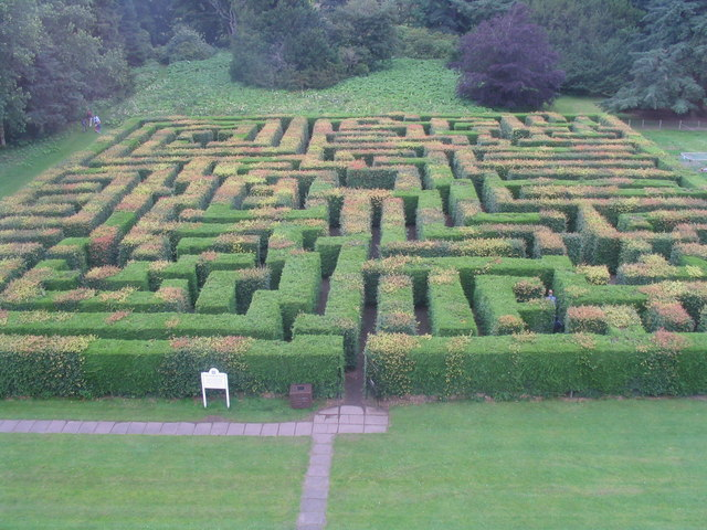 The hedge maze at Traquair House — in the Scottish Borders. "Not to be traversed in rain - it is due for a trim, so quite narrow, so one enters dry and comes out wet!"